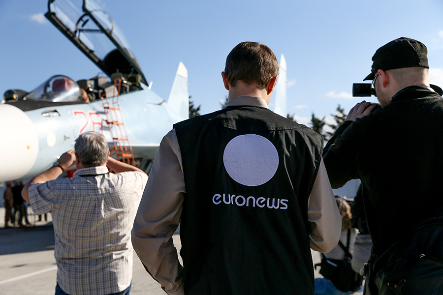 Press tour for Russian and international media representatives at the Russian airbase in Latakia, Syria